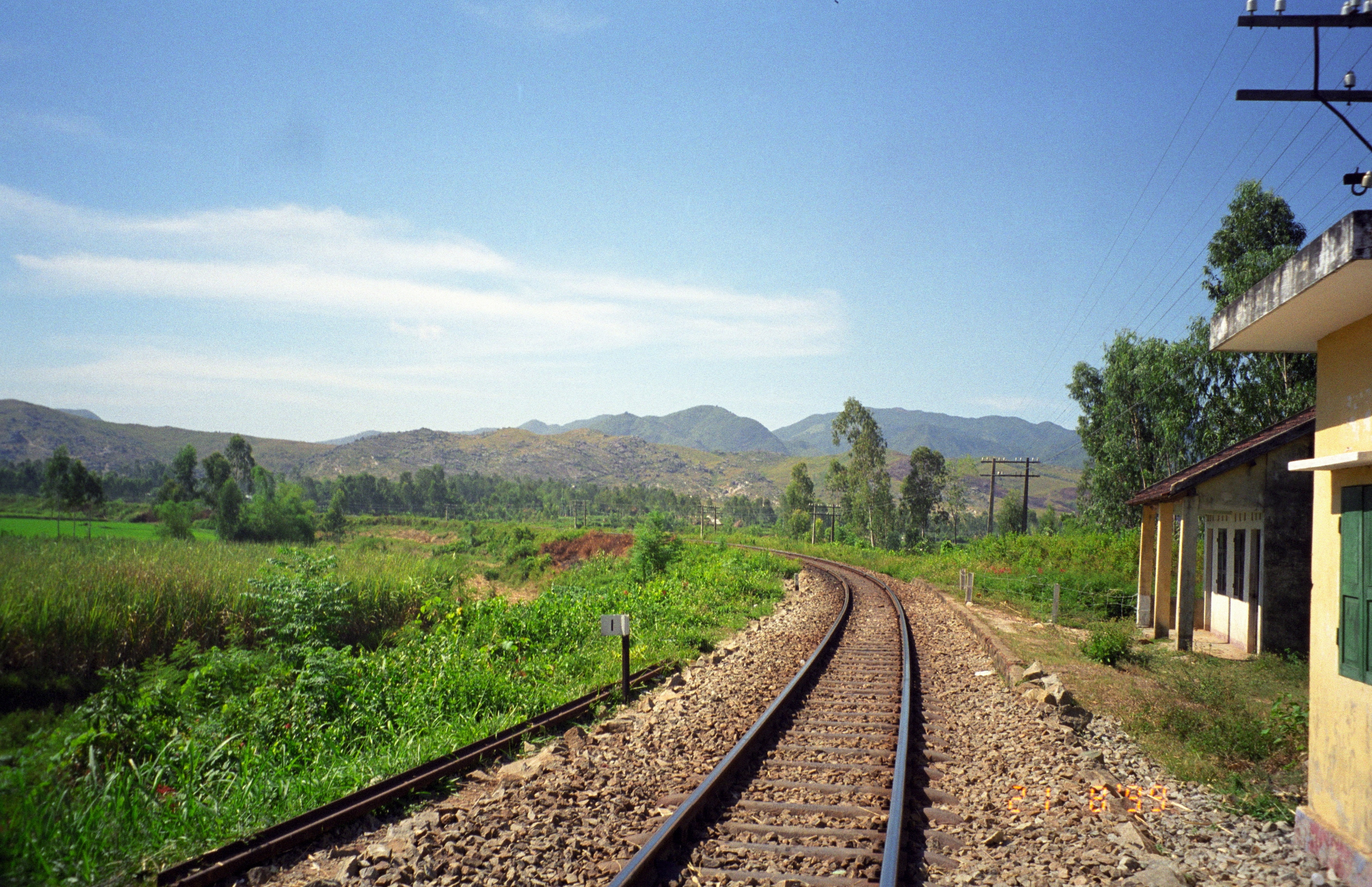 Railroad tracks near My Son, in central Vietnam.